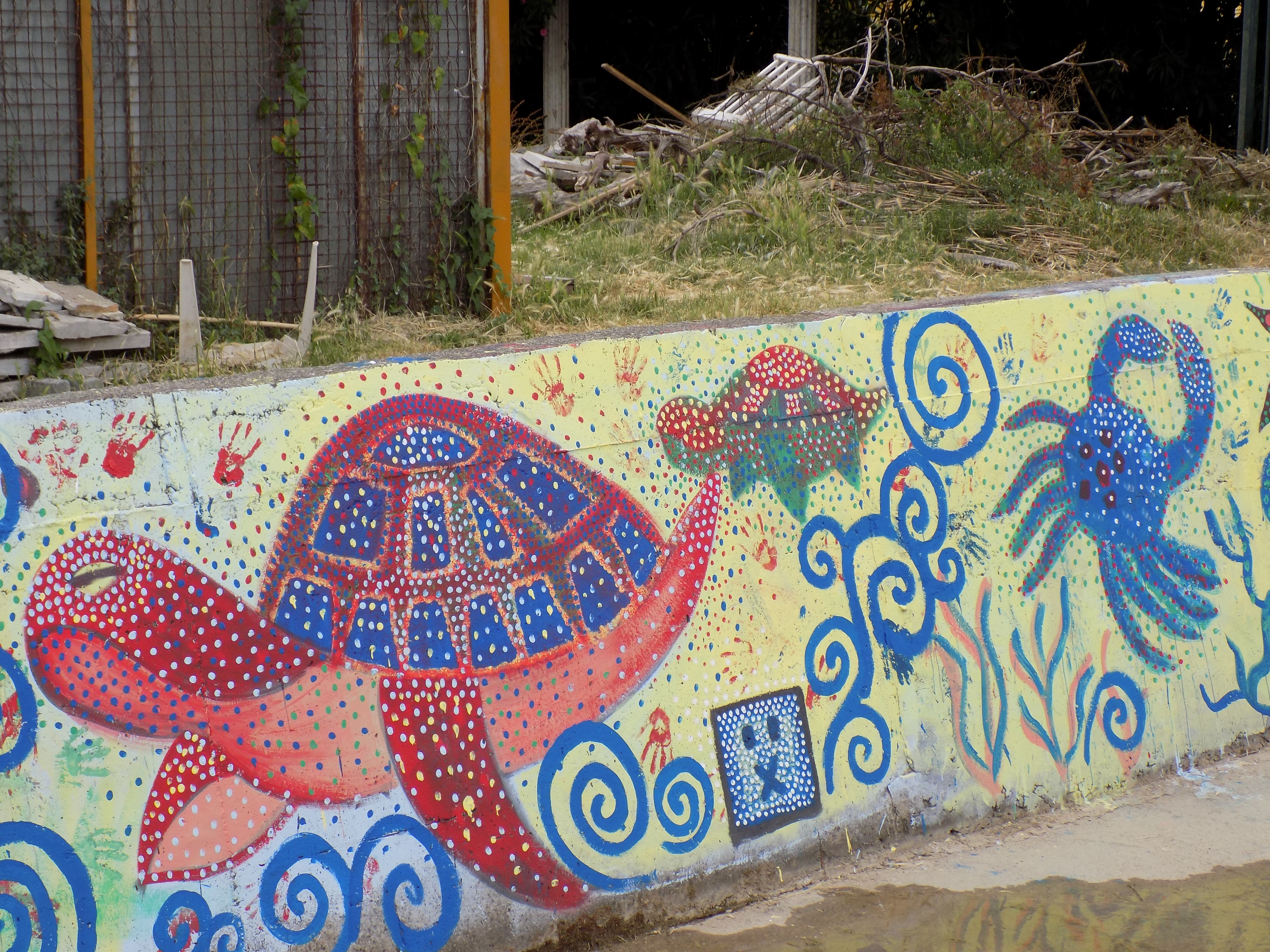 Painting the murals in the action of marking the Earth Day, Budva, Montenegro, 2018